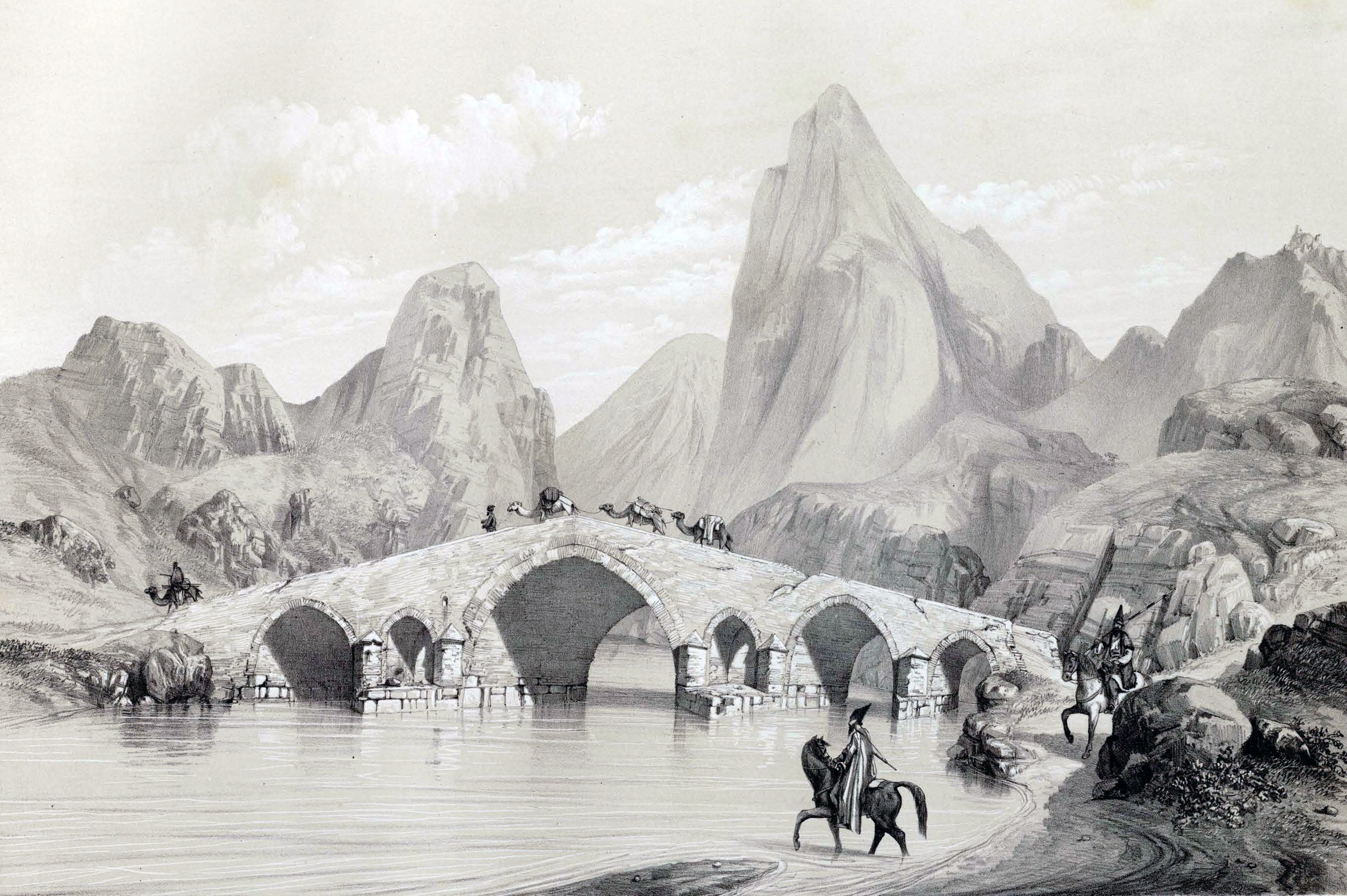 Bridge Kizil Hauzen